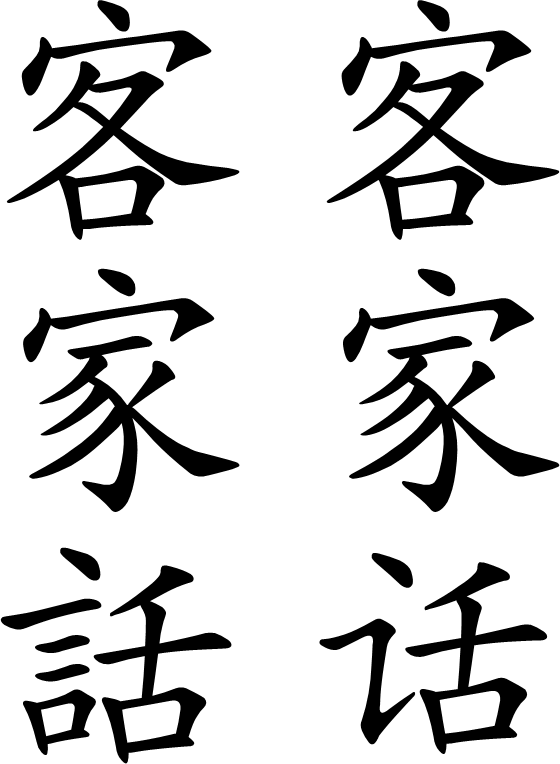 The Chinese characters "客家話/客家话" meaning Hakka Chinese, made using the 汉鼎简中楷/汉鼎繁中楷 truetype font